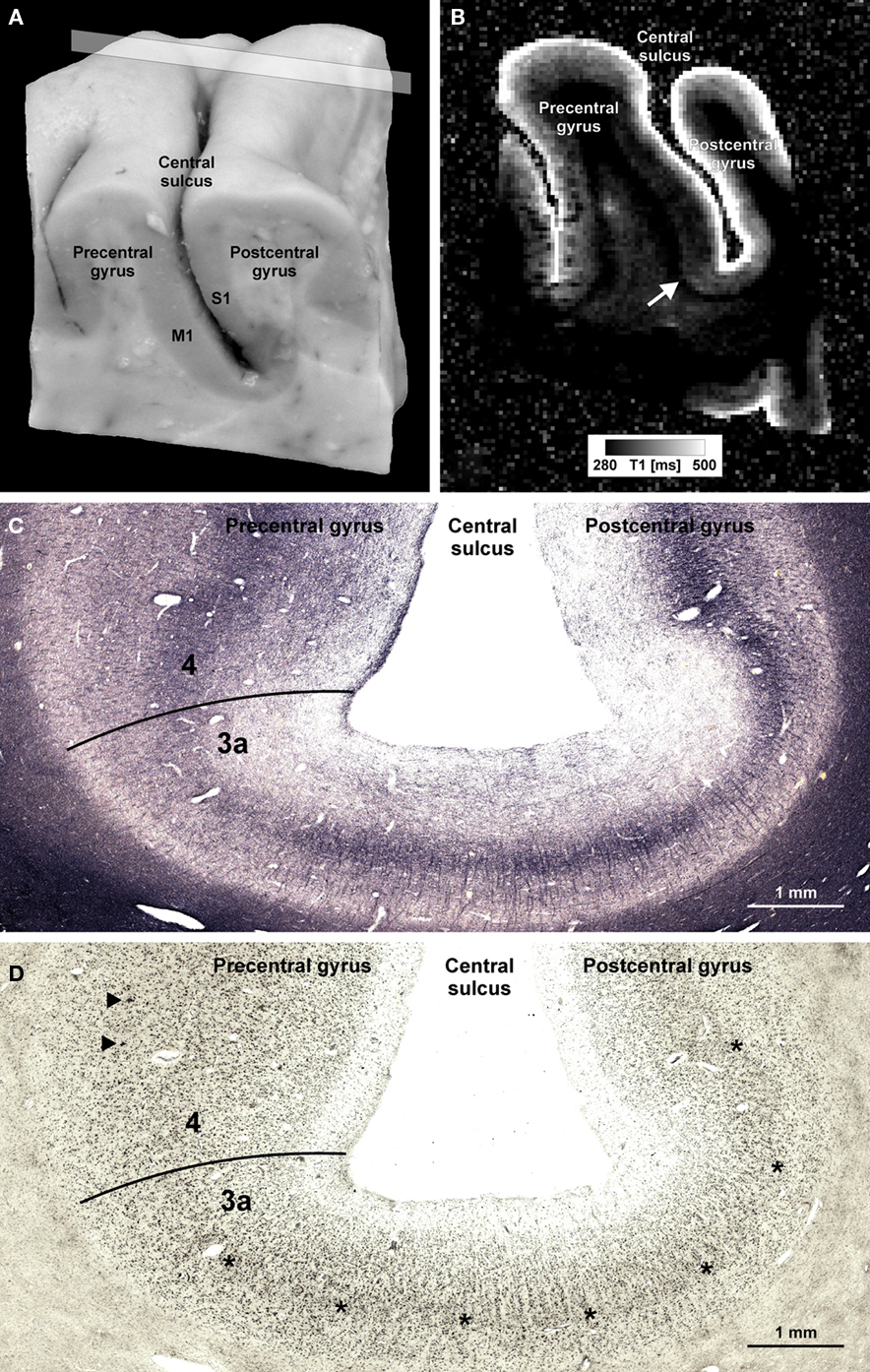 Pre- and post-central gyrus, right hemisphere. Microstructural 7-T MR mapping in post-mortem brains. (A) Tissue block (pre- and post-central gyrus, right hemisphere) from a post-mortem human brain (female, 61 years, died of pulmonary failure and chronic obstructive pulmonary disease, autopsy performed with informed consent of the patient’s relatives, post-mortem interval before fixation 24 h, fixed in 4% formalin for 2 months) prior to MR scanning and histological processing. M1 = primary motor cortex in the posterior wall of the precentral gyrus, S1 = primary somatosensory cortex in the anterior wall of the post-central gyrus. (B) Quantitative T1 map of the tissue block [for plane of sectioning see rectangle in (A)]. MP2RAGE sequence at 7 T, voxel size (0.33 mm)3, 32 averages, acquisition time 3 h 50 min, surrounding medium: Fomblin (Solvay Solexis, Bollate, Italy). Arrow indicates a sharp change in T1 contrast at the base of the precentral gyrus that matches a change in the myelo- and cytoarchitectonic pattern [cf. (C,D)]. (C,D) Frozen sections (30 μm) from a corresponding position of the same block stained for myelin basic protein [rat monoclonal antibody, avidin–biotin–peroxidase complex (ABC) method, chromogen: DAB and ammonium nickel(II) sulfate (C)] and cell bodies. Micrographs show the fundus of the central sulcus [same orientation as in (A,B)]. The drop in T1 values at the base of the precentral gyrus coincides with an increase in myelin basic protein immunostaining [line in (C)]. In an accompanying section stained for cell bodies, this position is characterized by an increase in gray matter thickness, a disappearing inner granular layer (asterisks), and emerging giant pyramidal (Betz) cells (arrowheads). This transition [lines in (C,D)] corresponds to the border between area 3a (somatosensory cortex) and area 4 (primary motor cortex).